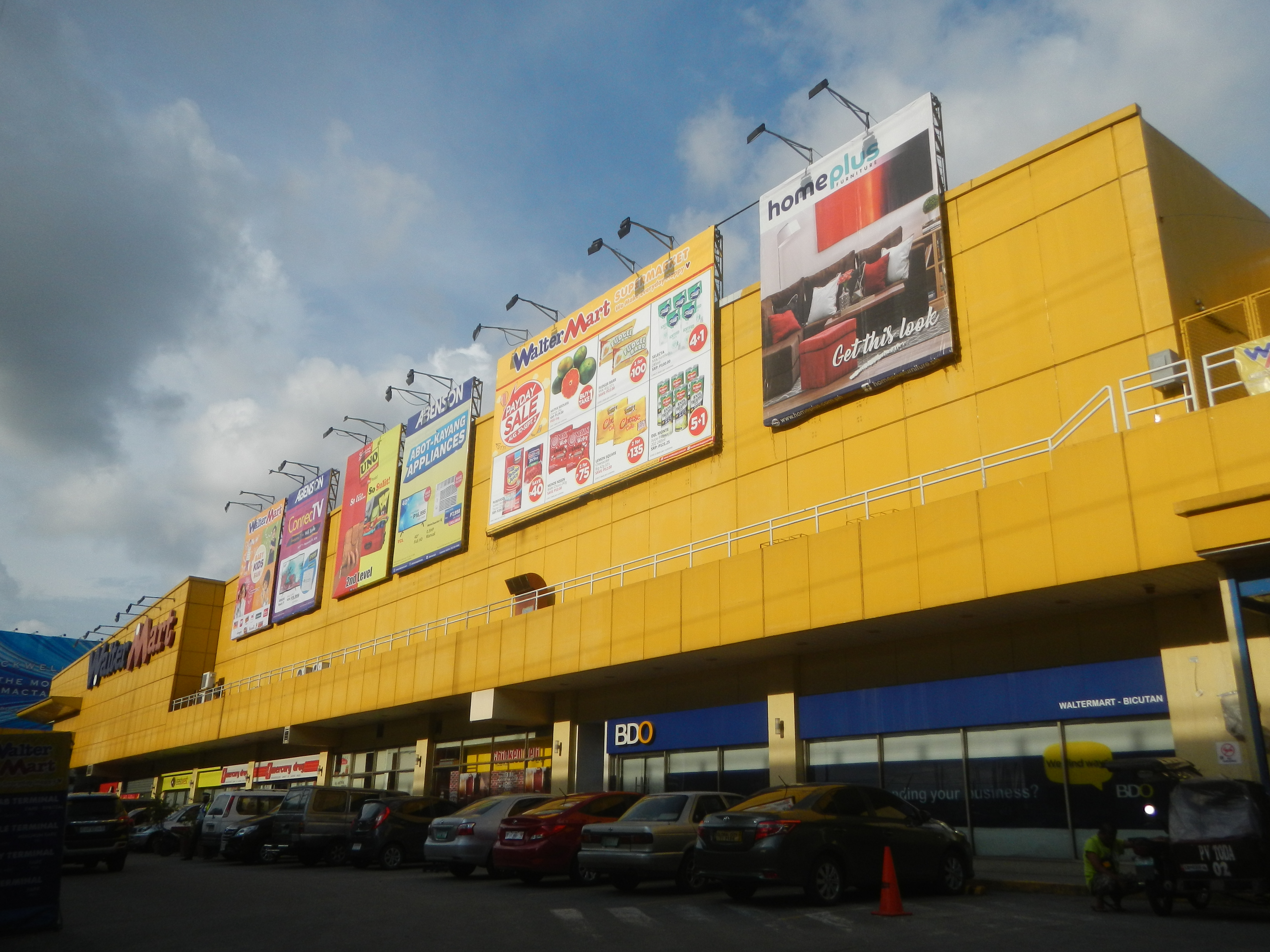 Perpetual Village (Tanyag, Taguig City) Our Mother of Perpetual Help Parish Church (Perpetual Village 1, Tanyag, Taguig City) Daang Hari Street corner Sta. Rita Street, Roman Catholic Diocese of Pasig Established 1977 Chapel 1978 September 8, 2010 as Quasi-Parish, Construction March 1, 2014 Solemnly Dedicated Canonical Erection October 24, 2015 beside Bagumbayan, Taguig City Taguig Bagumbayan Industrial Commercial Association, Inc. Batisan Bridge (Bagumbayan, Taguig City) Legislative district of Taguig City Legislative district of Pateros-Taguig City Barangays Tanyag 14°28'43"N 121°2'54"E Bagumbayan 14°28'33"N 121°3'18"E Bagumbayan, Taguig, Upper Bicutan Upper Bicutan 14°29'52"N 121°2'59"E Barangay Western Bicutan, Taguig City Western Bicutan (Taguig) 14°31'3"N 121°2'22"E Taguig City bounded by List of barangays of Metro Manila, Legislative districts of Parañaque 1st District, Districts and barangays, San Martin de Porres 14°28'54"N 121°2'33"E Parañaque City (Note: Judge Florentino Floro, the owner, to repeat, Donor Florentino Floro of all these photos hereby donate gratuitously, freely and unconditionally all these photos to and for Wikimedia Commons, exclusively, for public use of the public domain, and again without any condition whatsoever).